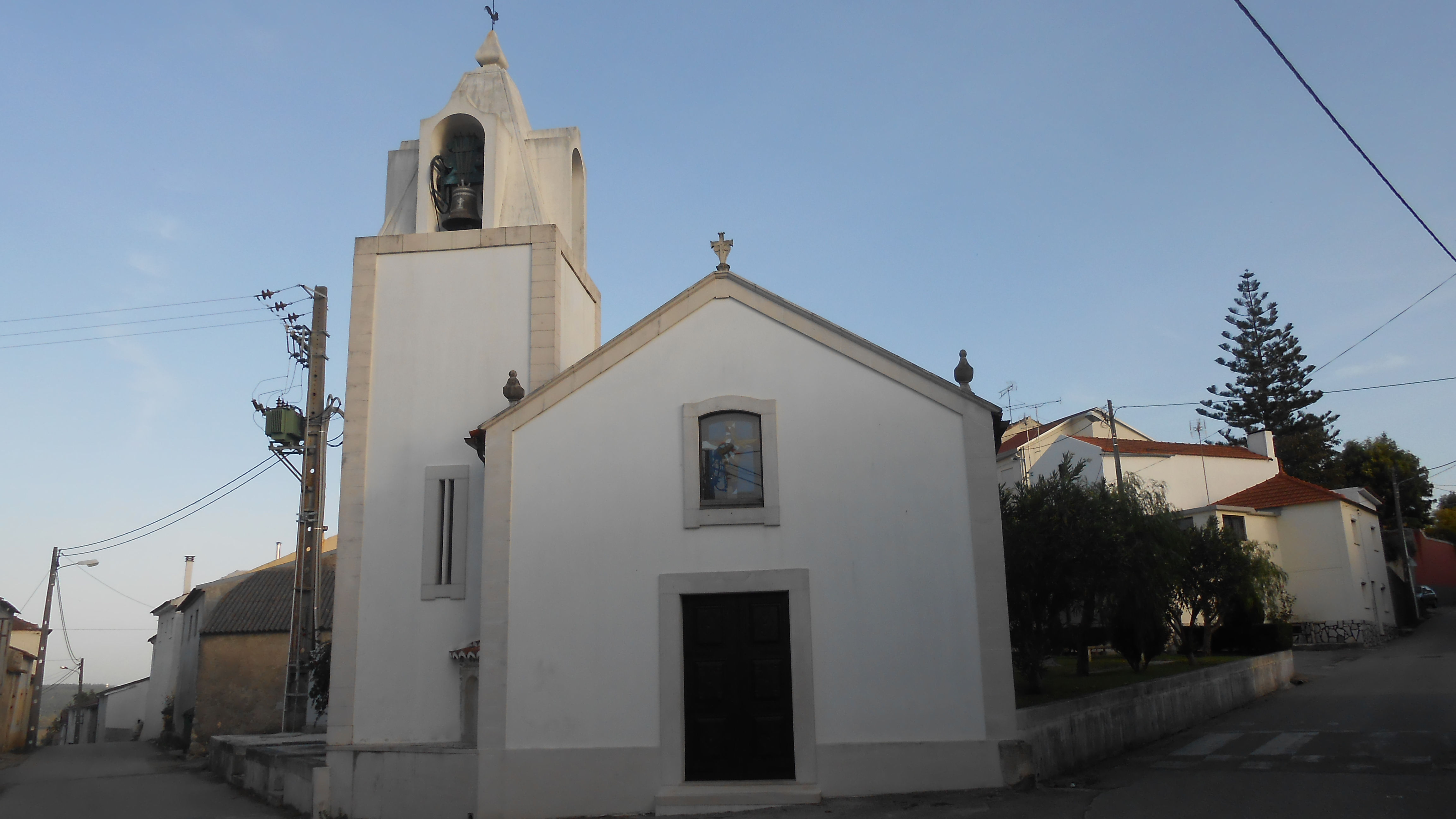 The chapel in Cercal, a village in the civil parish of Gesteira, in the Soure municipality, district of Coimbra, Portugal.